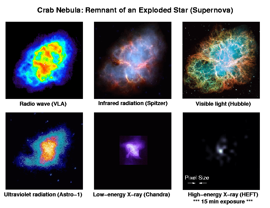 The High Energy Focusing Telescope (HEFT) is a balloon-borne instrument carrying one of the first focusing telescopes for the hard X-ray band (20–70 keV). It makes use of tungsten-silicon multilayer coatings to extend the reflectivity of nested grazing-incidence mirrors beyond 10 keV. HEFT has an angular resolution of 1.5 arcminutes in half-power diameter, and an energy resolution of 1.0 keV full width at half maximum at 60 keV. HEFT was launched for a 25-hour balloon flight on May 2005. The instrument performed within specification, and observed Cyg X-1, the Crab Nebula.